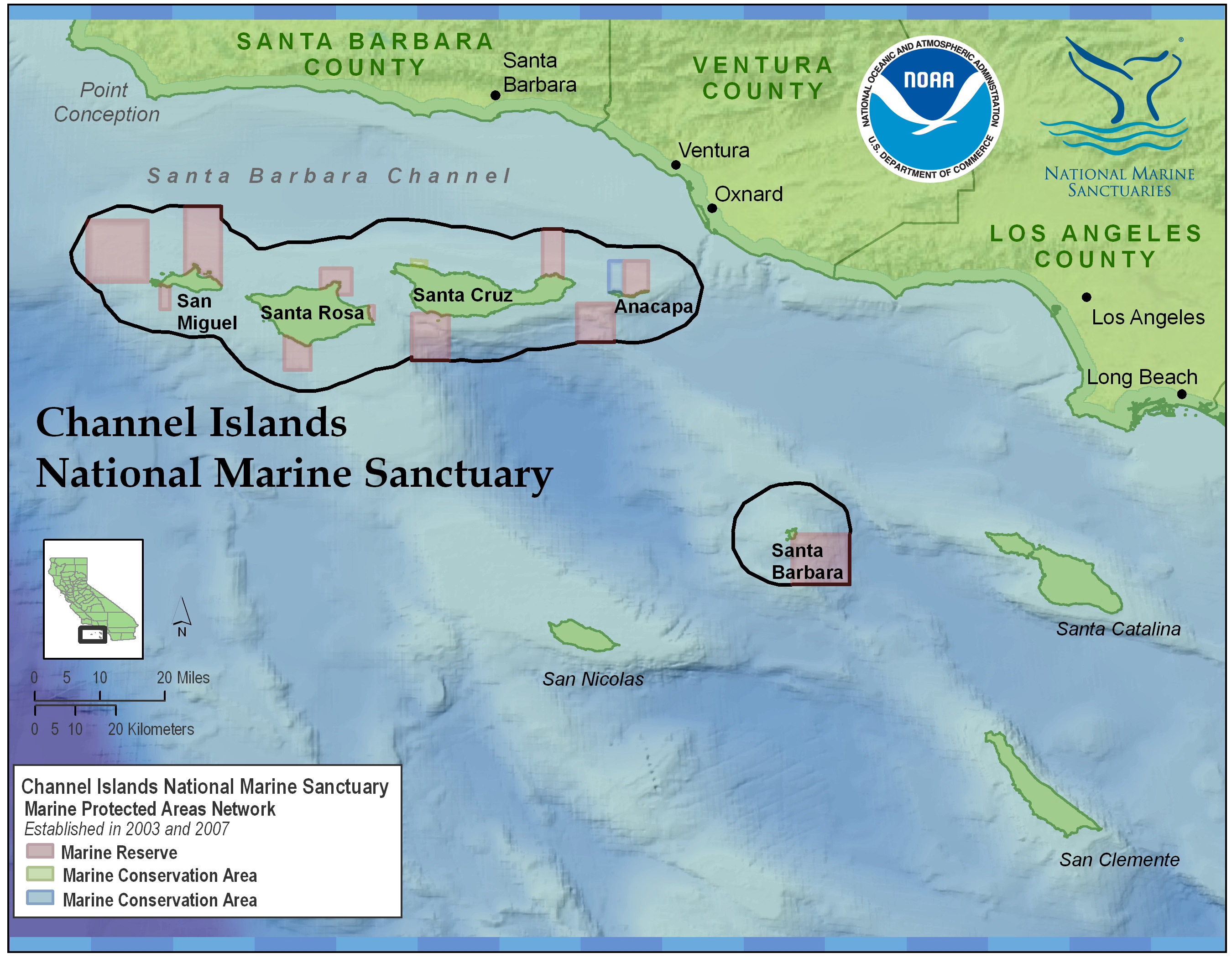 Map of the Channel Islands National Marine Sanctuary — Southern California. Around the northern Channel Islands of California.